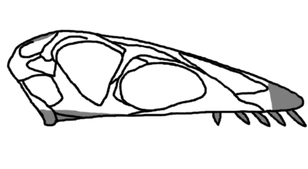 Skull reconstruction of Parapsicephalus